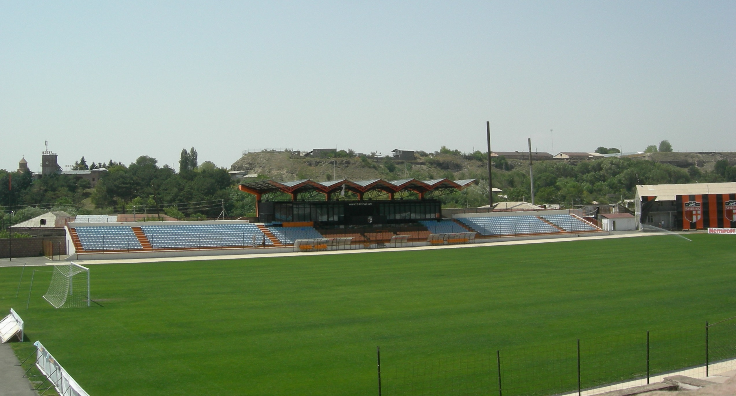 Gyumri city stadium, Yerevan, Armenia.